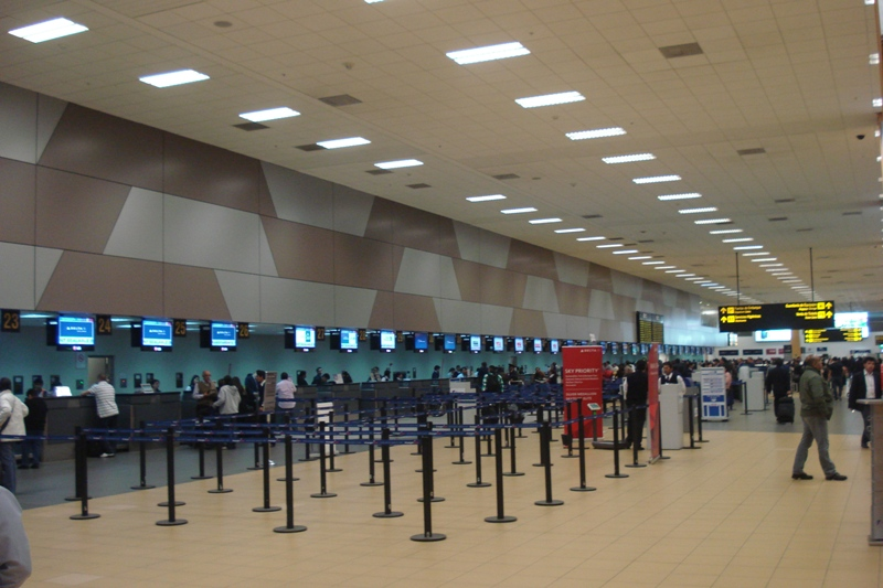 Check-in area at Jorge Chavez International Airport (Lima, PE)